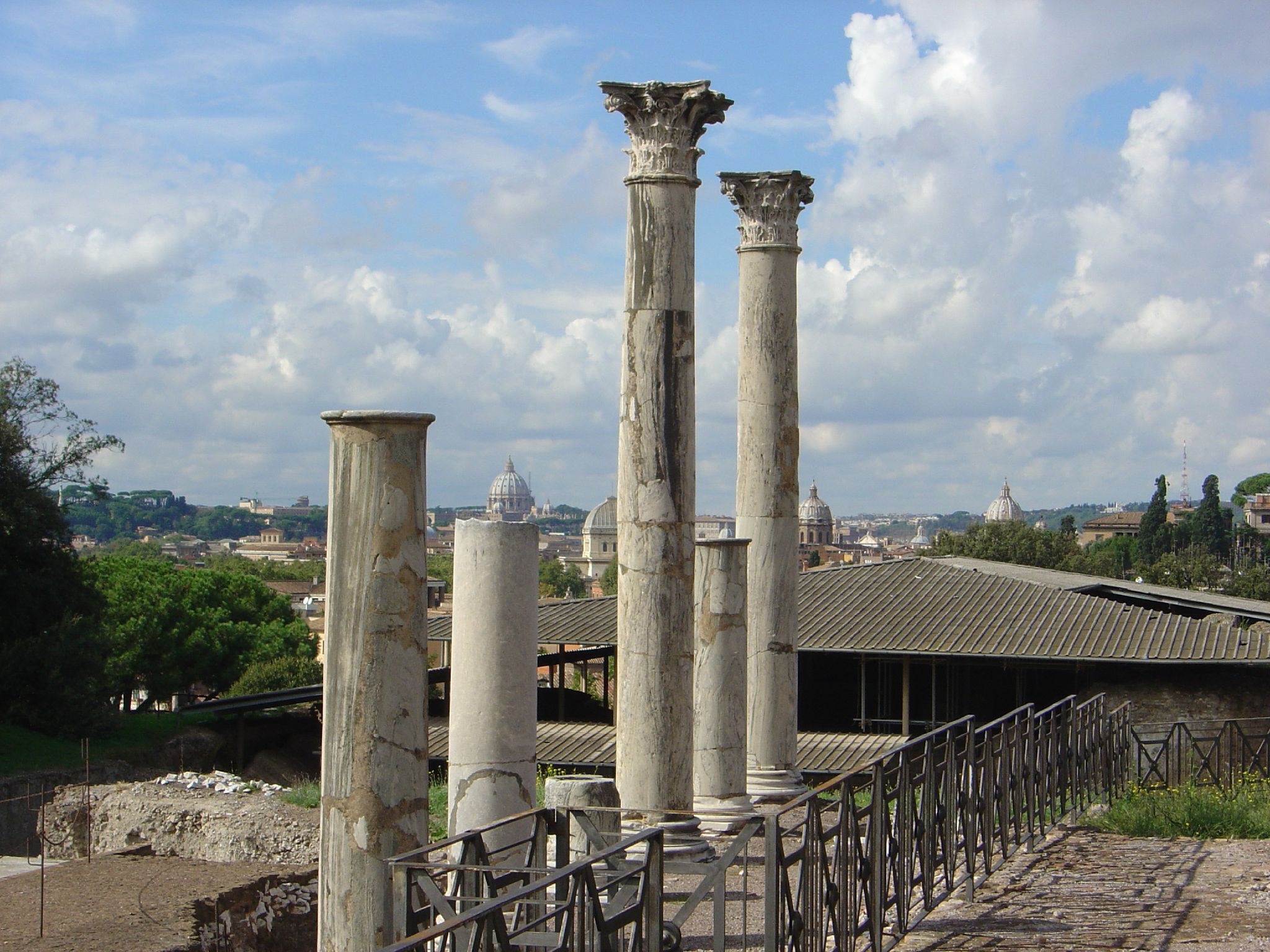 Ruined columns on Palatine Hill in Rome.